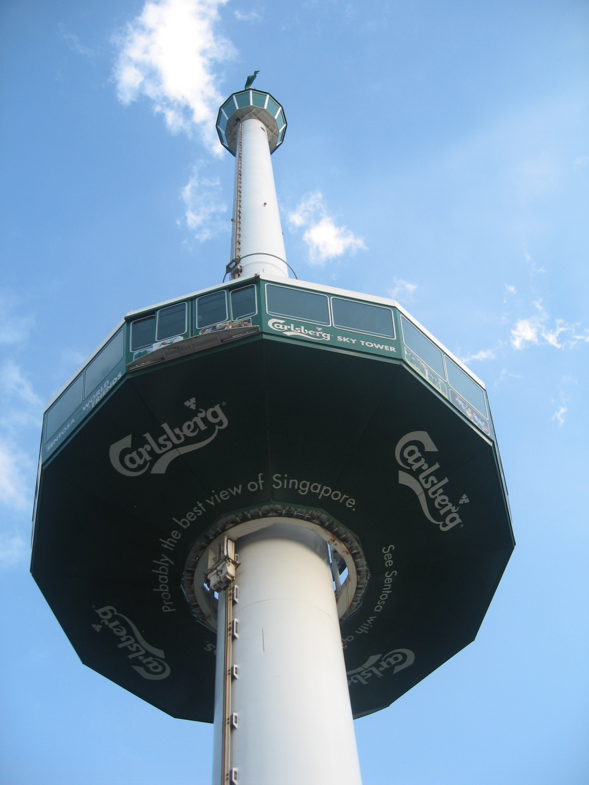 Carlsberg Sky Tower.